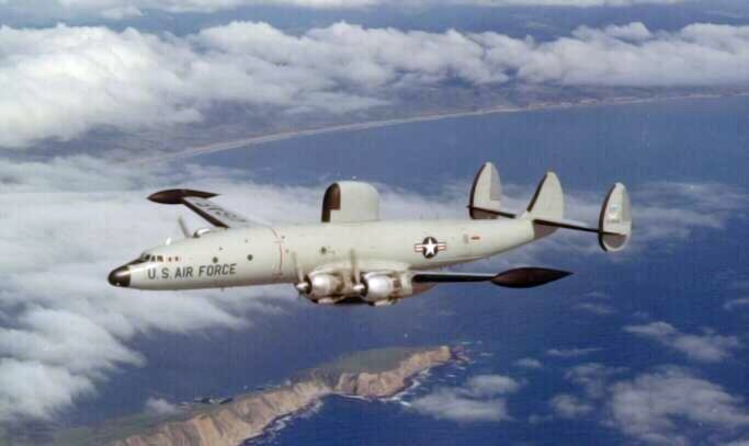 An U.S. Air Force Lockheed EC-121D Warning Star of the 552nd Airborne Early Warning and Control Wing over Thailand, 1972.